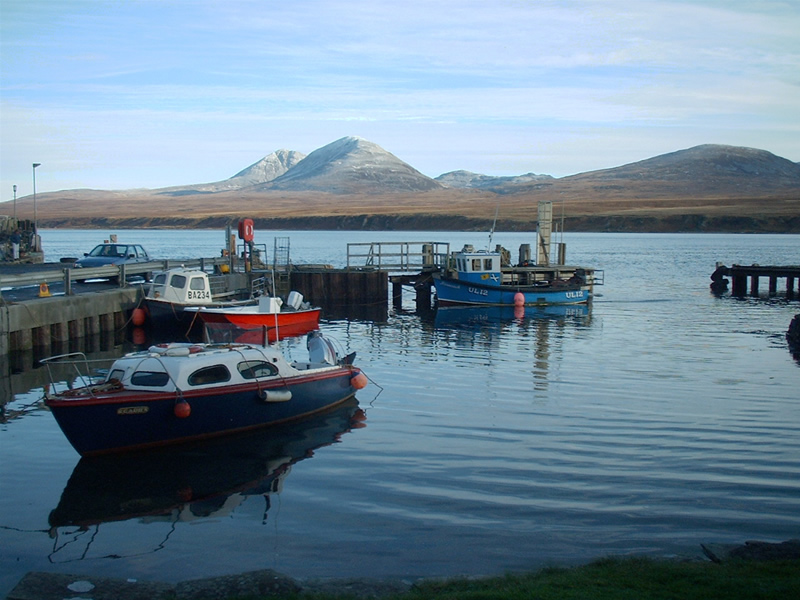 Ray Husthwaite Photograph taken during winter of 2004 Original work by author